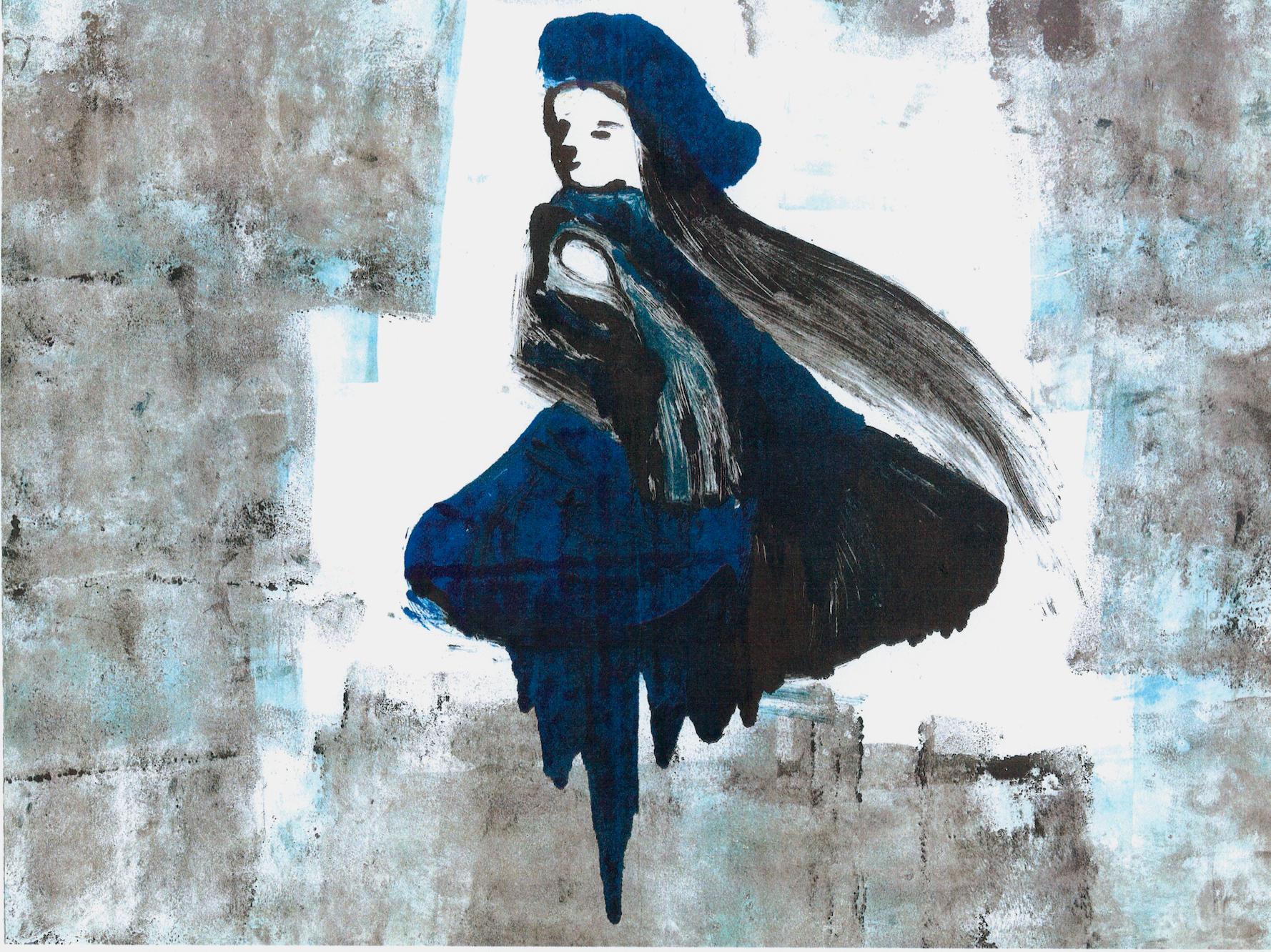 Daina Skadmane - Riga Ghetto Art (1998-2004).111 Art work name: Frida, 1941